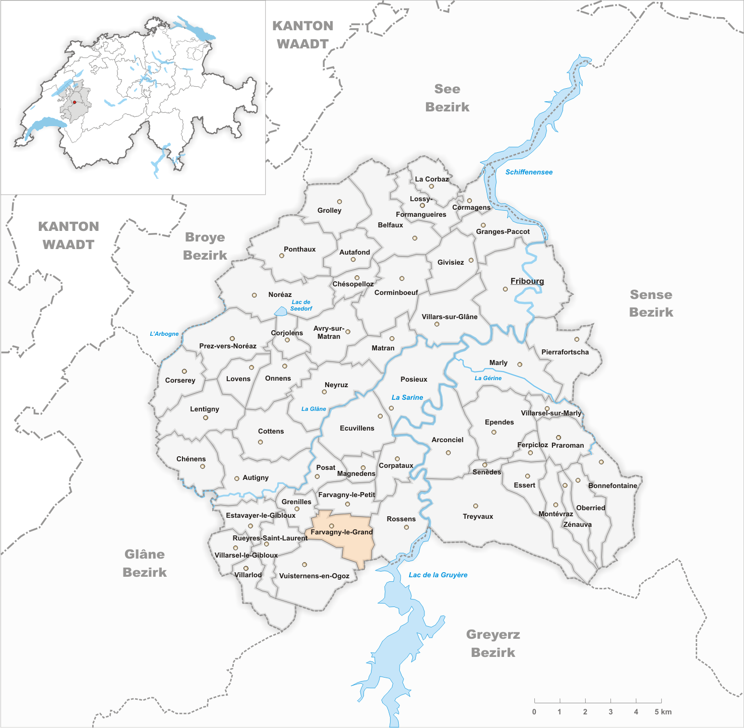 Municipality Farvagny-le-Grand Artist: Tschubby